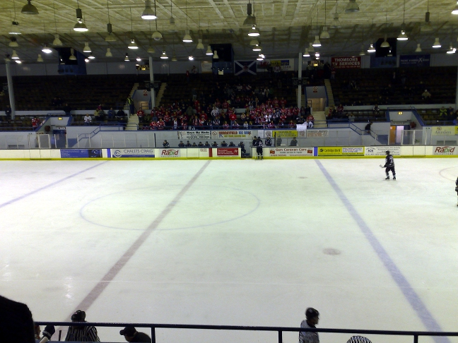 This photograph shows the ice pad of Murrayfield Ice Rink on 15 January 2012 during an ice hockey game between Edinburgh Capitals and Cardiff Devils.